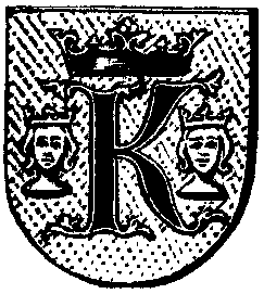 Coat of Arms of Kasimir (today Kazimierz).